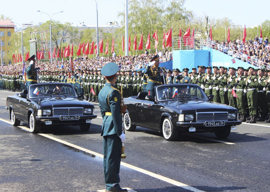 В Параде Победы в Самаре приняли участие около 2тыс. человек и 50 единиц военной техники